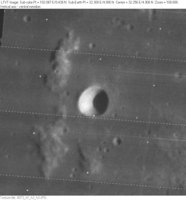 Wallach crater